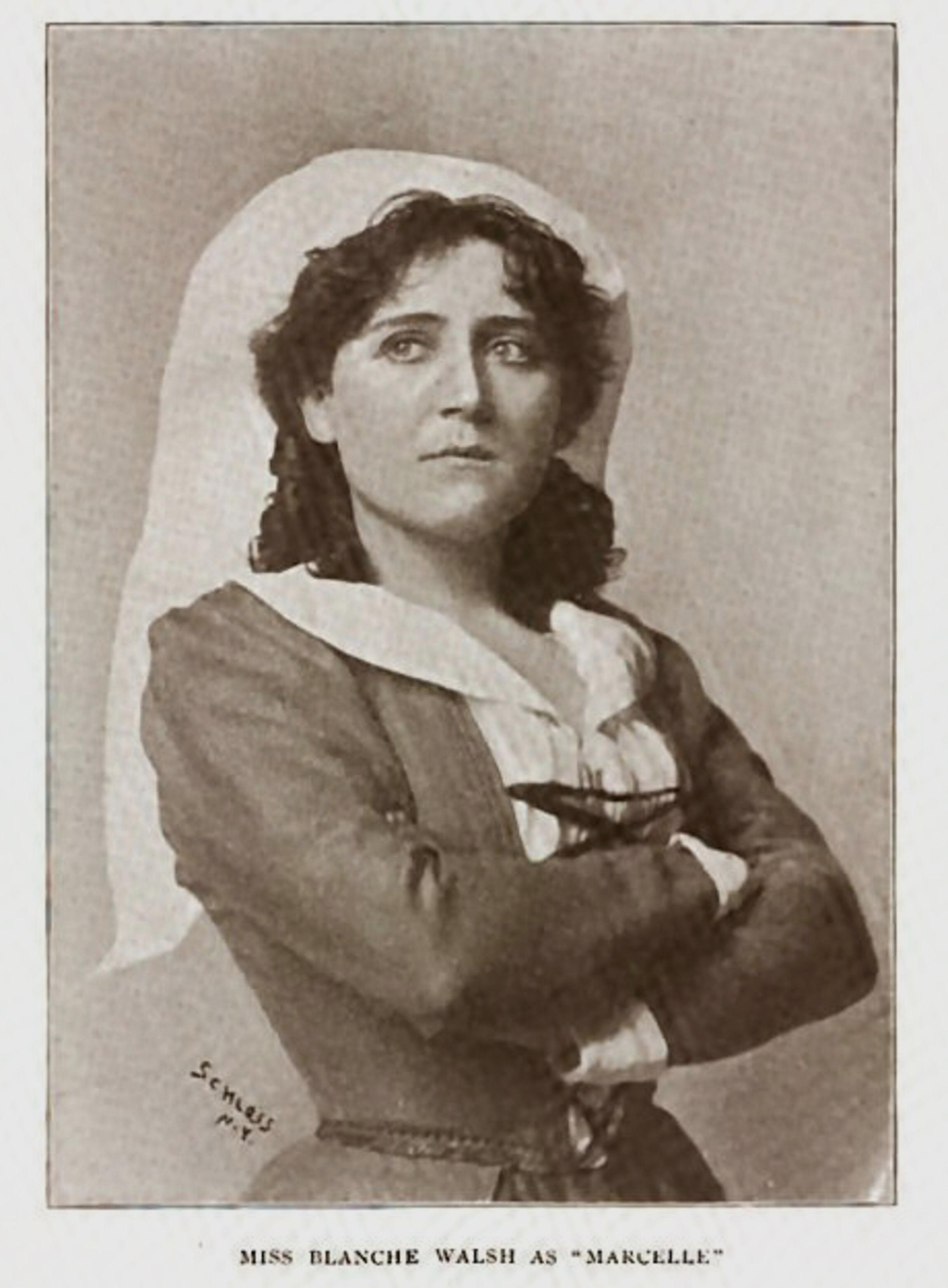 Actress Blanche Walsh in the title role of Marcelle